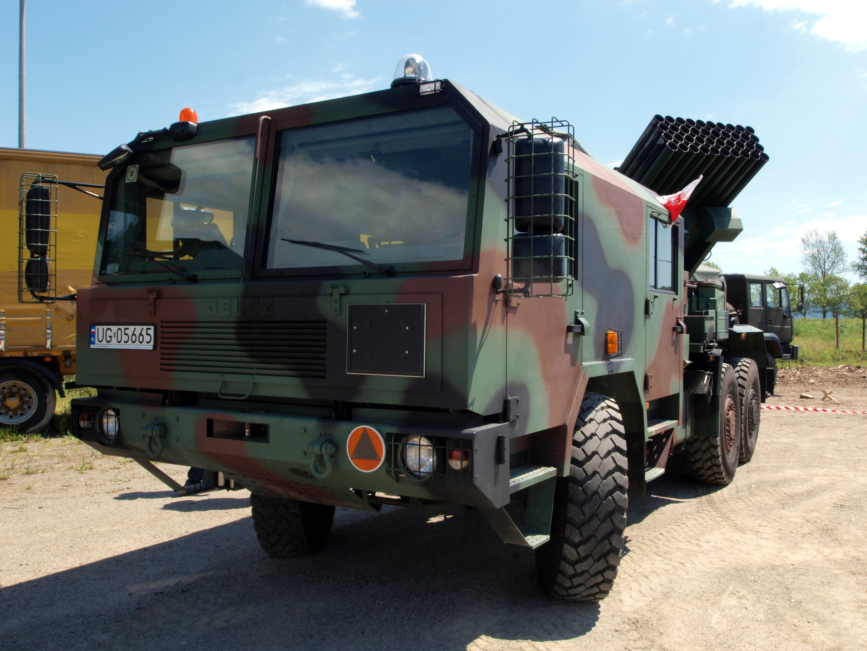 Polish WR-40 Langusta 122mm